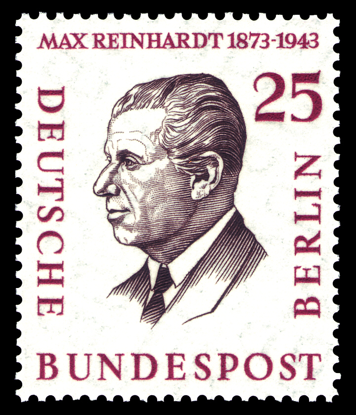 stamp series, men of the history of Berlin II, Max Reinhardt, (1873-1943)